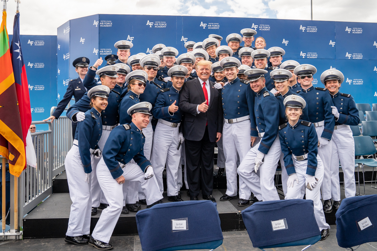 President Donald J. Trump poses for a photo with some graduates following the 2019 U.S. Air Force Academy Graduation Ceremony Thursday, May 30, 3019, at the U.S. Air Force Academy-Falcon Stadium in Colorado Springs, Colo. (Official White House Photo by Shealah Craighead)